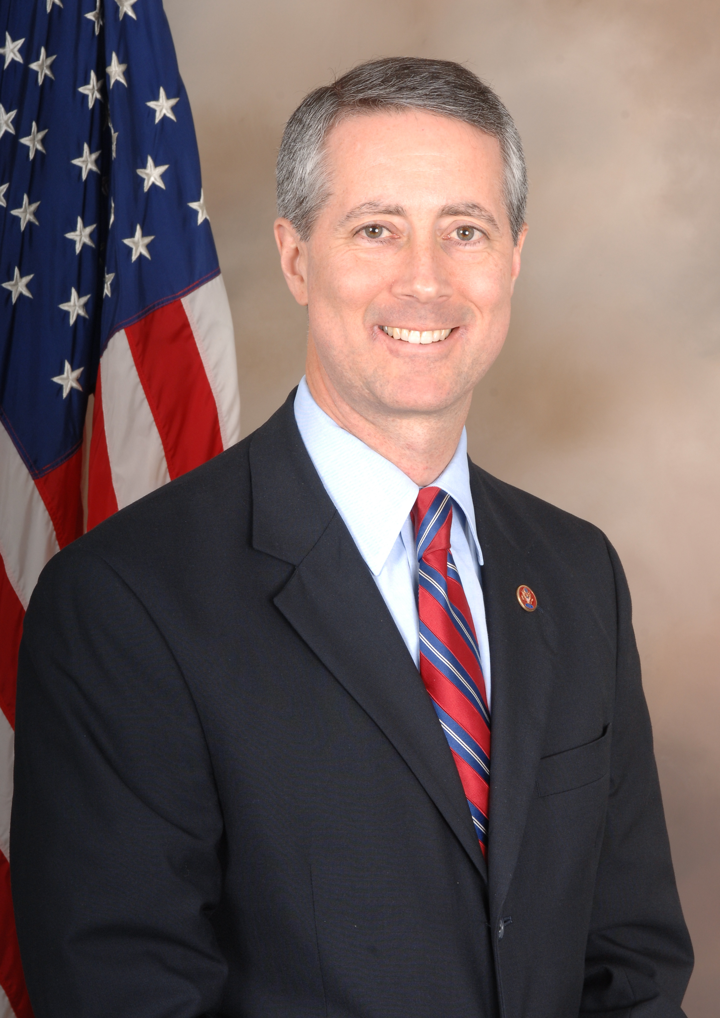 Official portrait of US Congressman Mac Thornberry